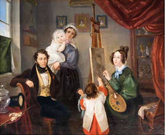 Self-portrait of Charlotte von Rothschild with her husband Anselm von Rothschild, two of their children, and their nanny. Oil on canvas. Private Collection, London.